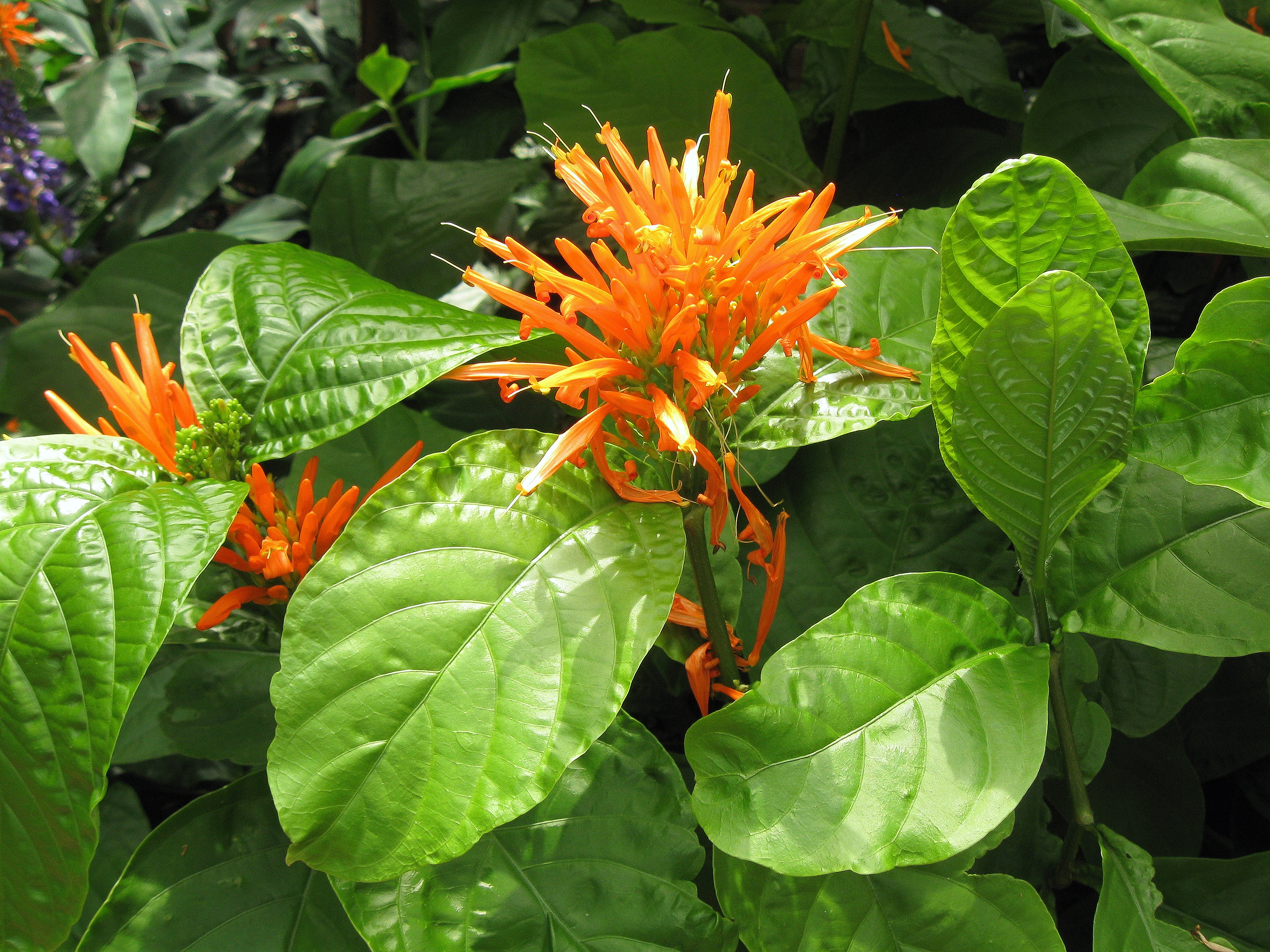 Cultivar of Justicia spicigera blooming in Phipps Conservatory, Pittsburgh